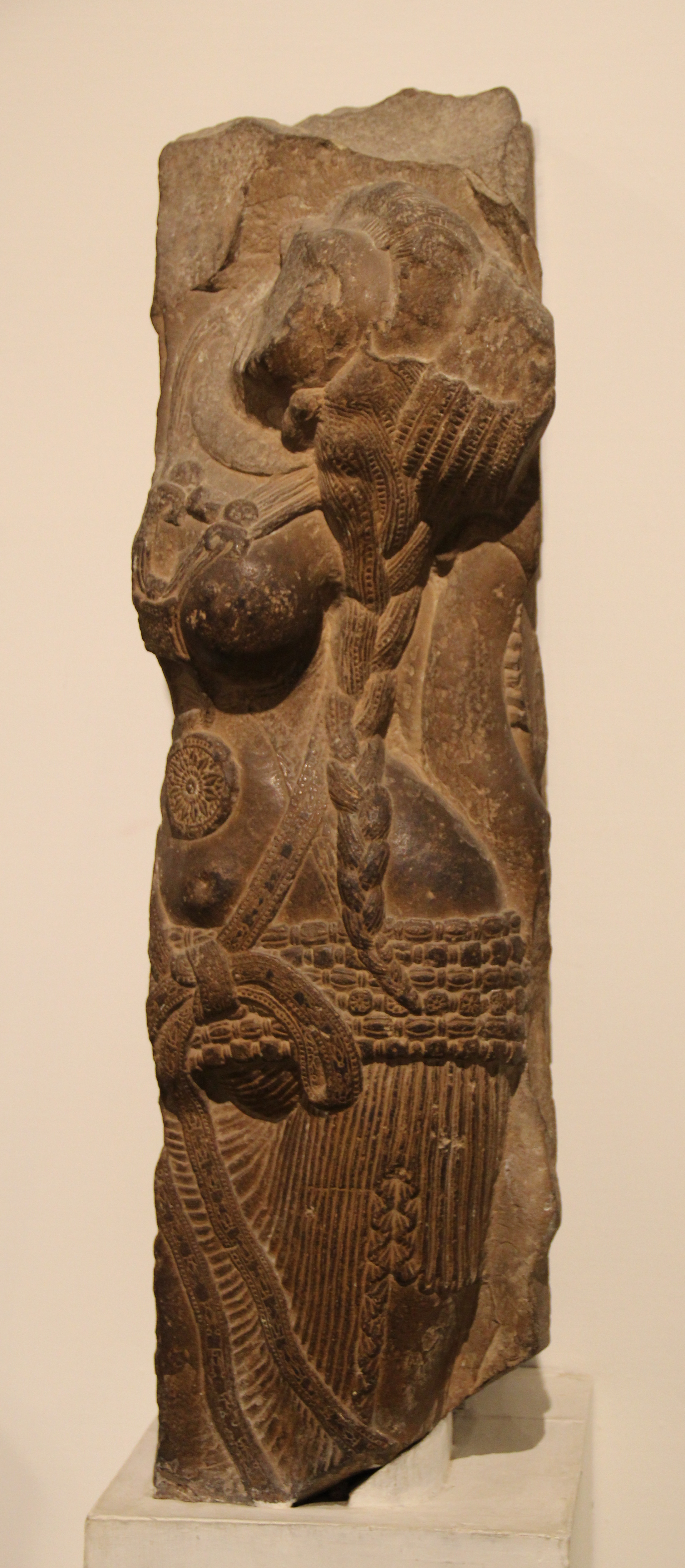 Mehrauli Yakshi, 150 BCE, Mathura. Maurya, Shunga and Satavahana Arts Gallery, India National Museum, New Delhi. Complete indexed photo collection at .